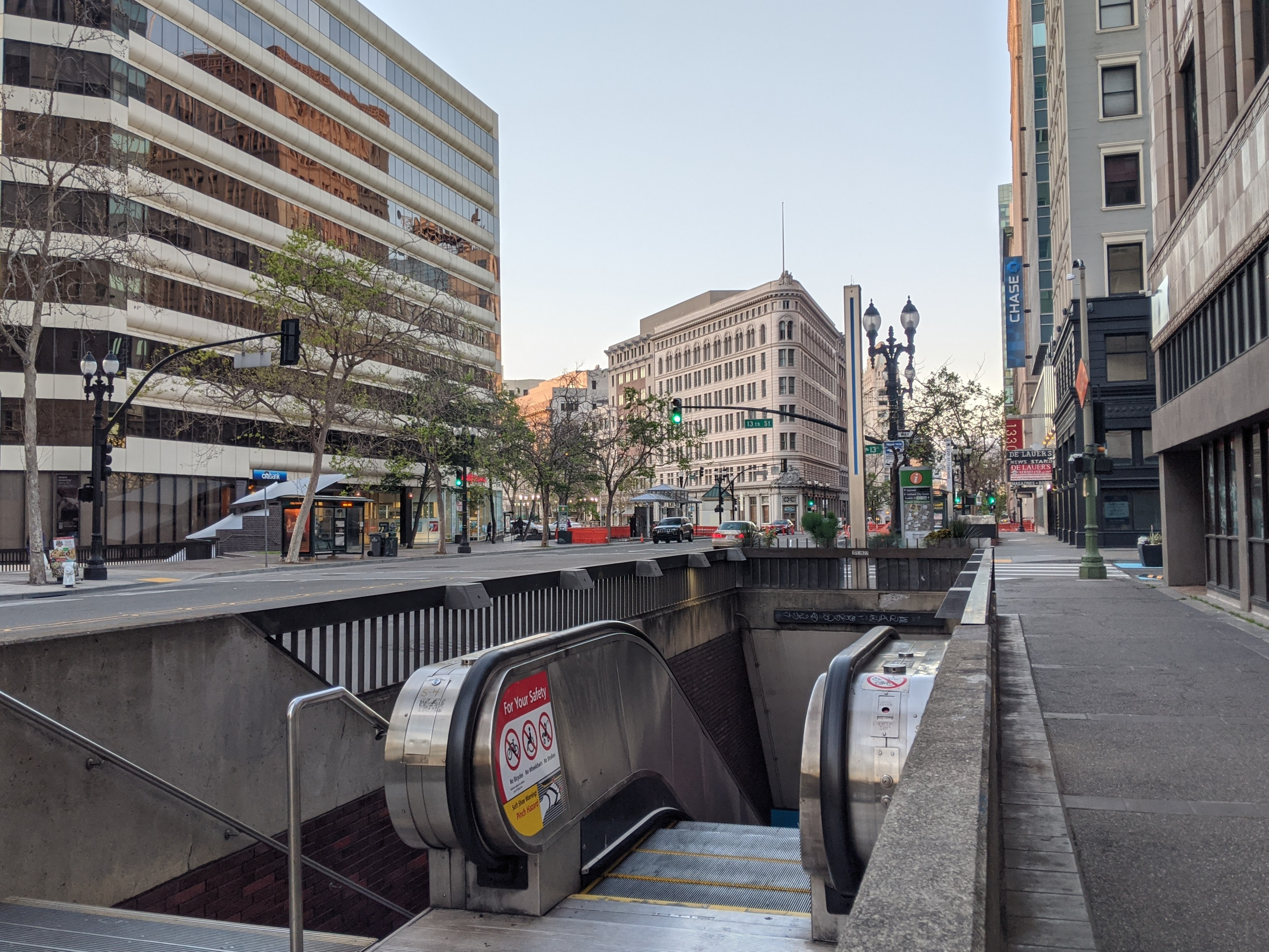 Entrance to 12th Street Oakland City Center station from the southeast corner of 13th and Broadway in April 2020